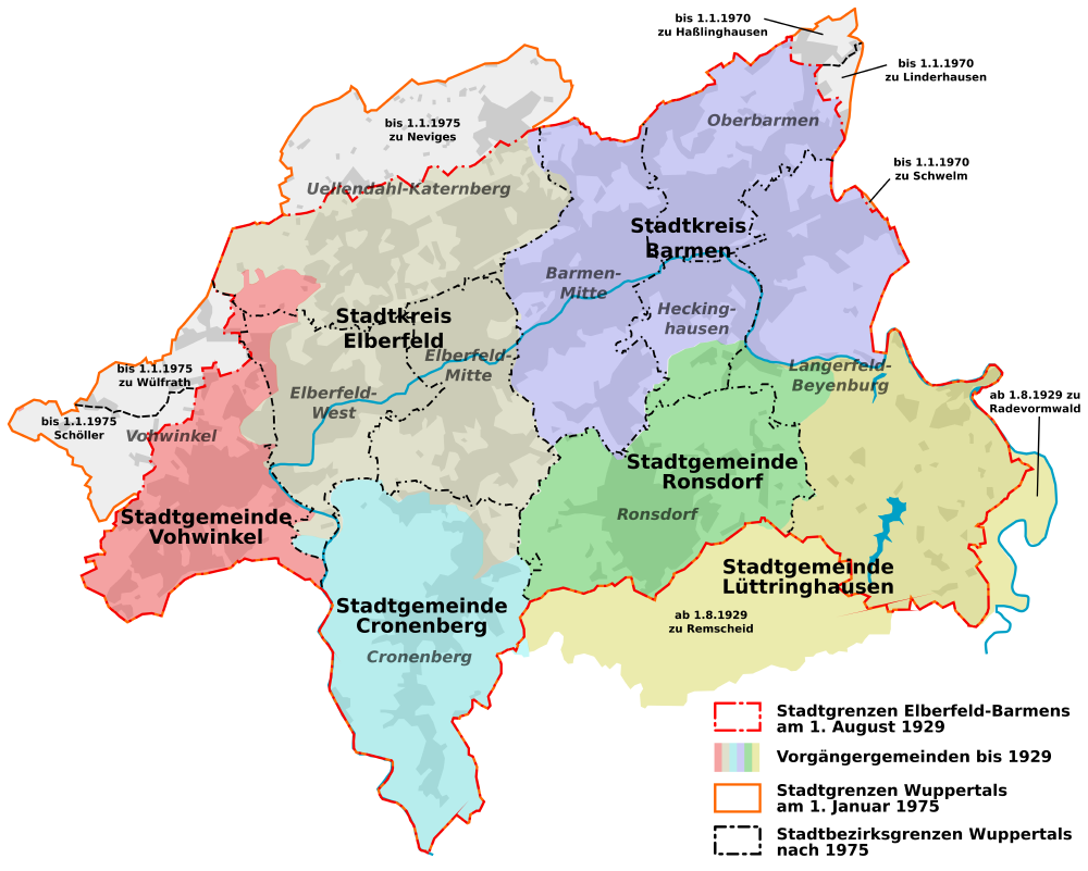 Territorial Changes in the Region of nowadays Wuppertal